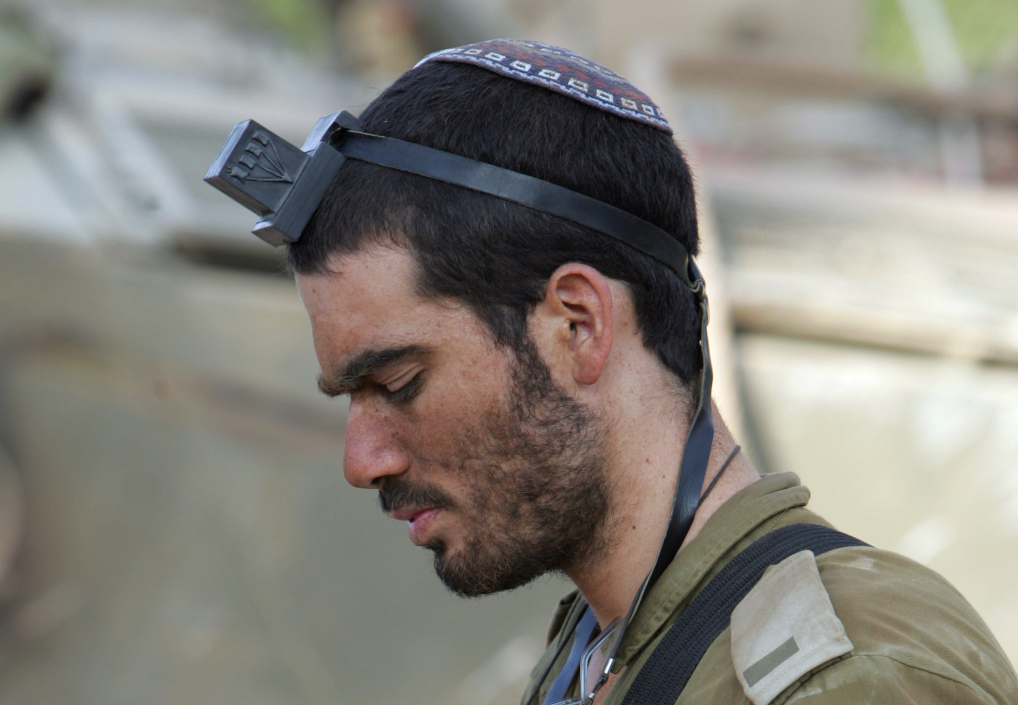 An IDF soldier prays with tefillin in 2006 Lebanon War after the Battle of Bint Jbeil. The officer is Lieutenant Asael Lubotzky from the esteemed Golani Infantry Brigade. He was seriously wounded in the war. His story was published in the book From the Wilderness and Lebanon by Yedioth Ahronoth recounting his personal experiences from the Second Lebanon War.